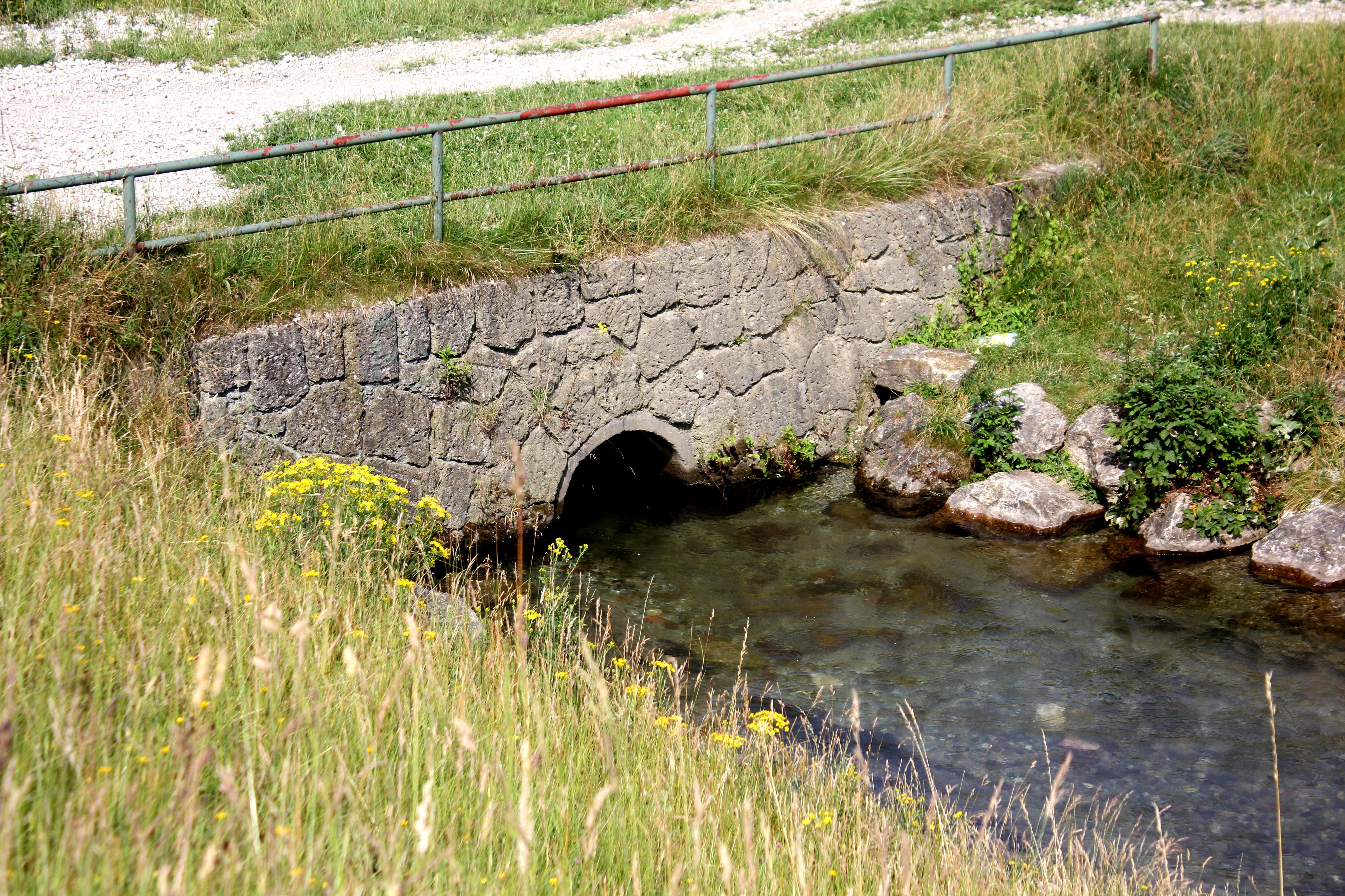 Beginn of Hüllgraben in Munich near Zamdorf rail triangle